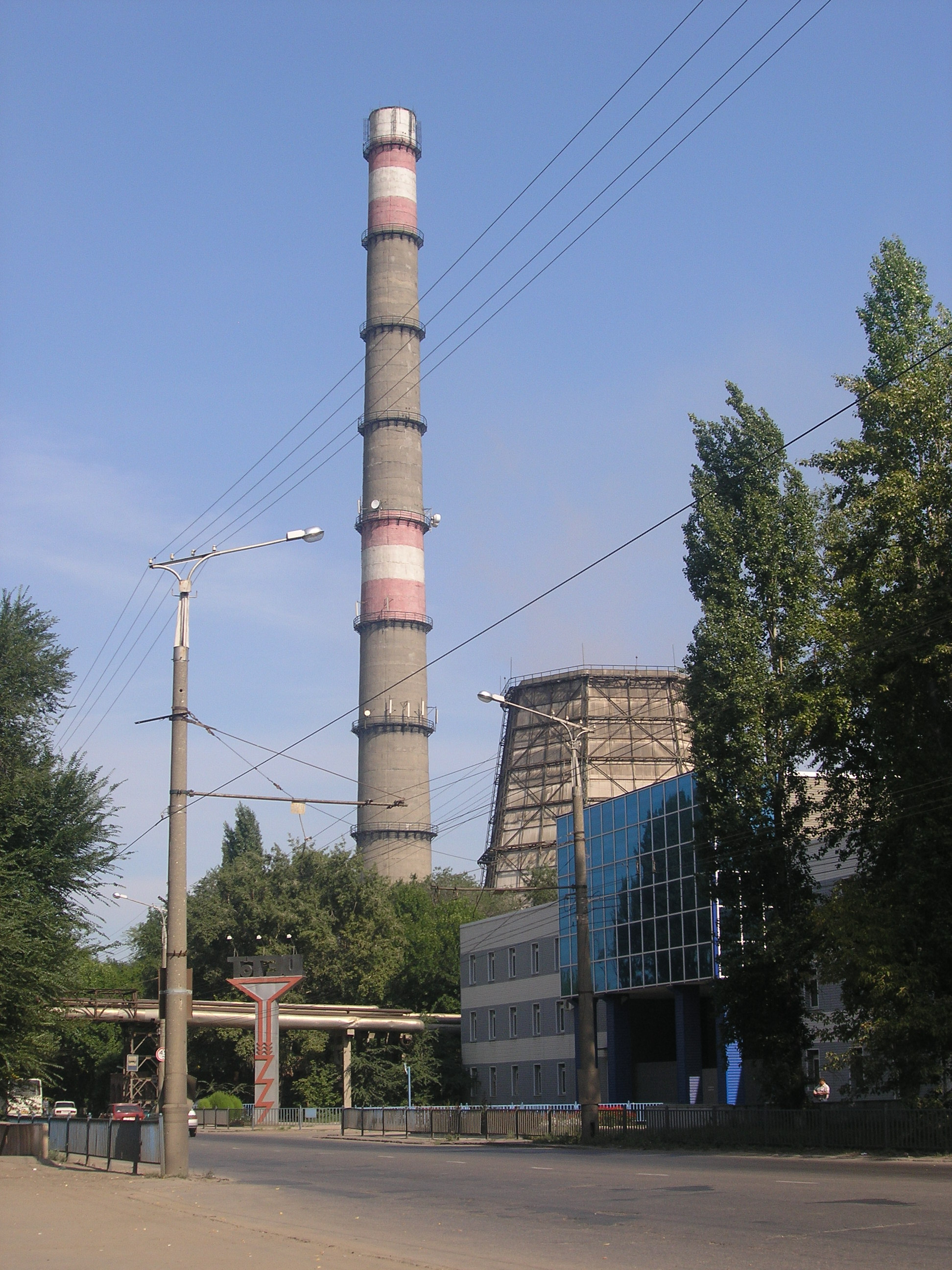 Tolyattinskaya TEZ, Togliatti, Russia